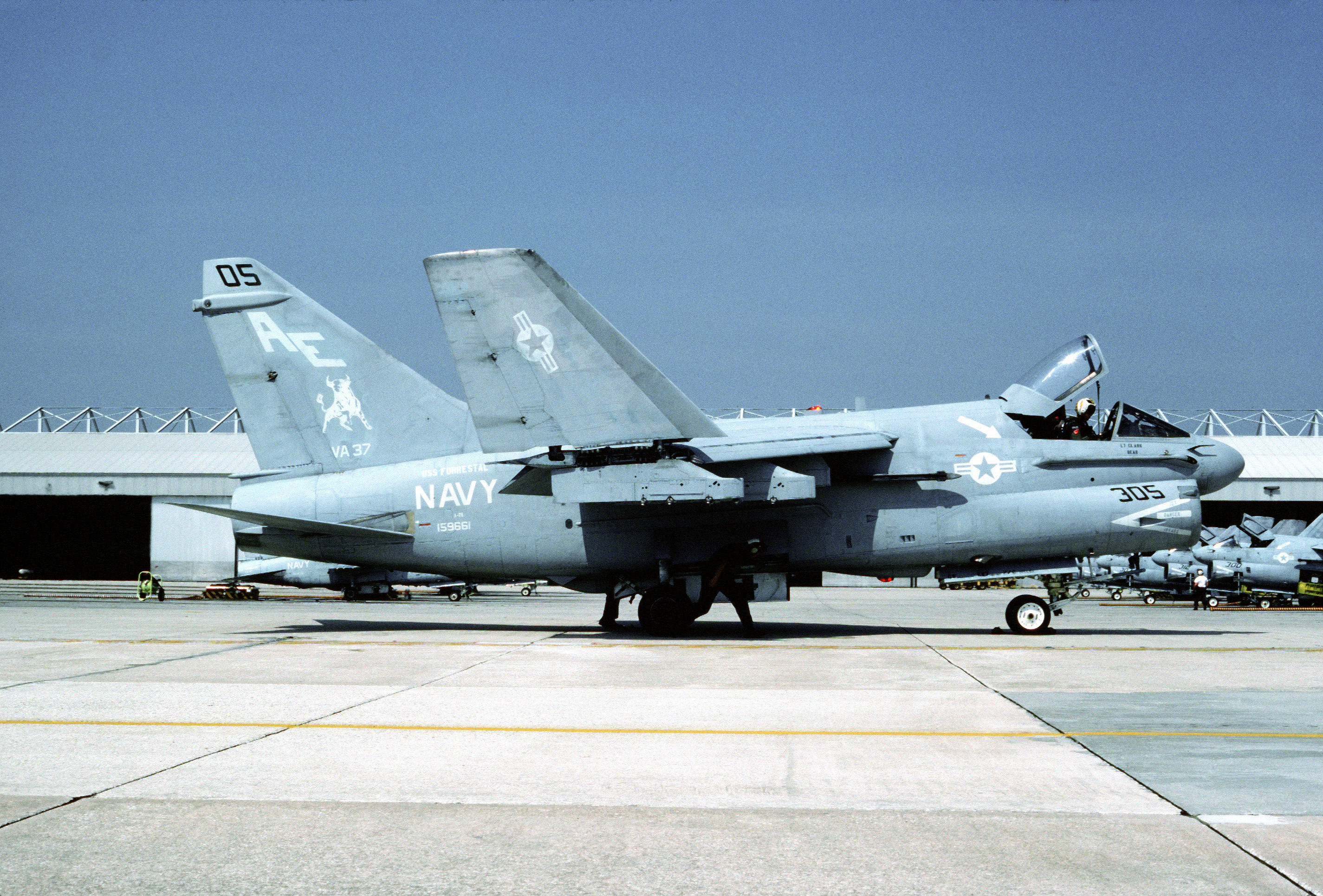 A U.S. Navy Ling-Temco-Vought A-7E Corsair II (BuNo 159661) of Attack Squadron 37 (VA-37) "Bulls" parked on the flight line. VA-37 was assigned to Carrier Air Wing 6 (CVW-6) aboard the aircraft carrier USS Forrestal (CV-59). The A-7E 159661 was retired to the AMARC 6A0226 on 8 July 1987.